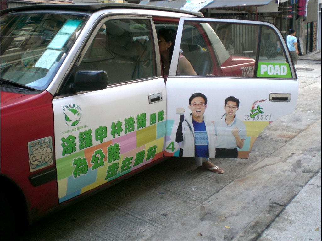 香港的士 #環保計程車 - 2008年香港立法會選舉香港民主黨涂謹申團隊的車身廣告